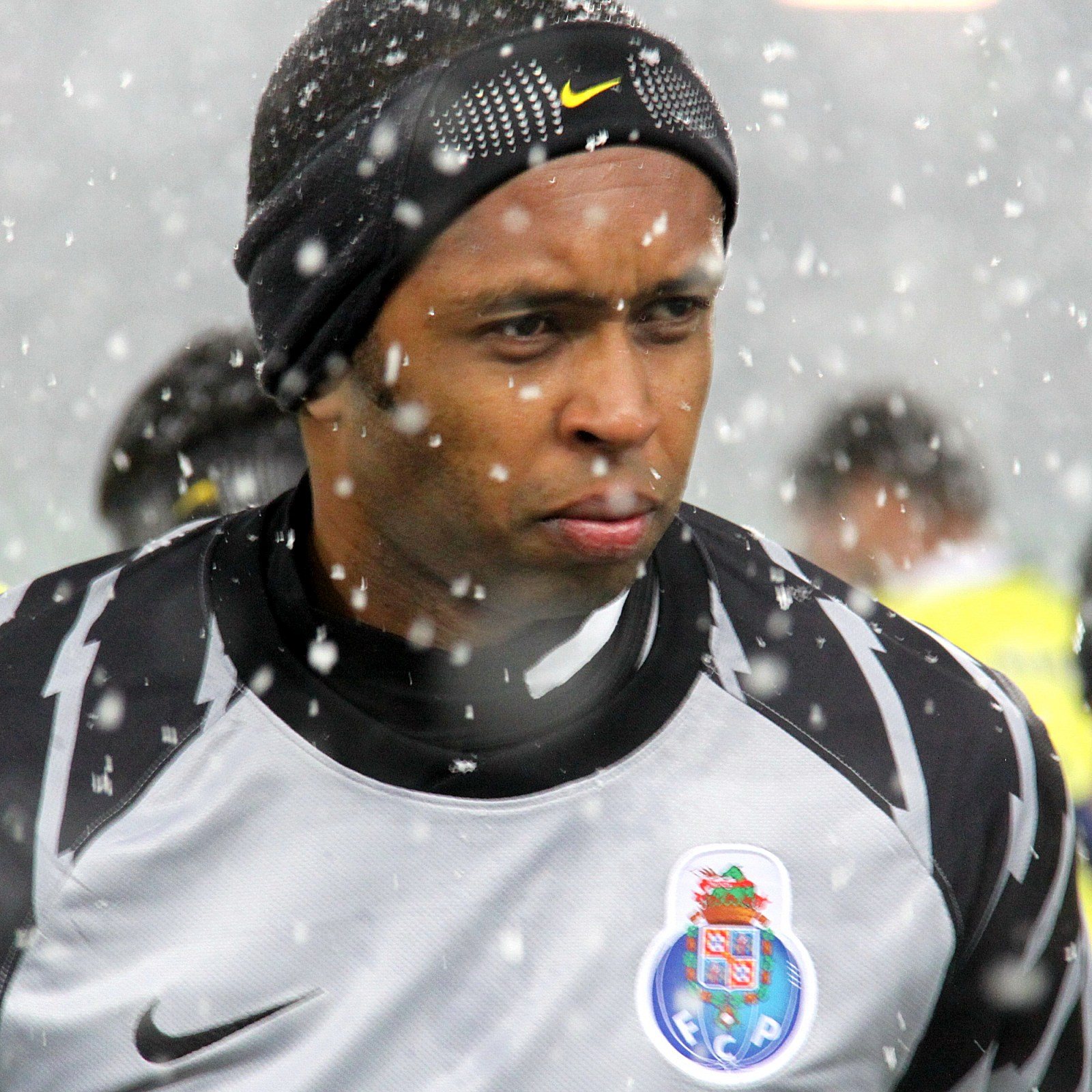 2010–11 UEFA Europa League - SK Rapid Wien vs. F.C. Porto 1:3 Ernst-Happel-Stadion (Vienna) – The brasilian goalkeeper and captain of F.C. Porto Helton Arruda.